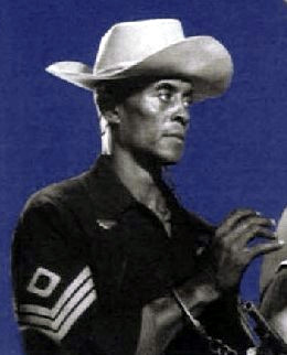 Woody Stroode as Sergeant Rutledge.